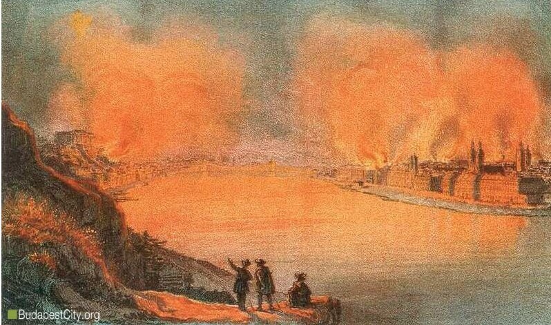 The shelling of Pest by the Austrian commander of Fort Buda, Gen. Hentzi